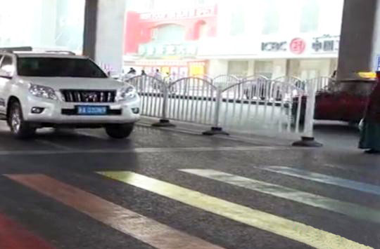 Innovative Colorful Road Marking Lines in Urumqi, China